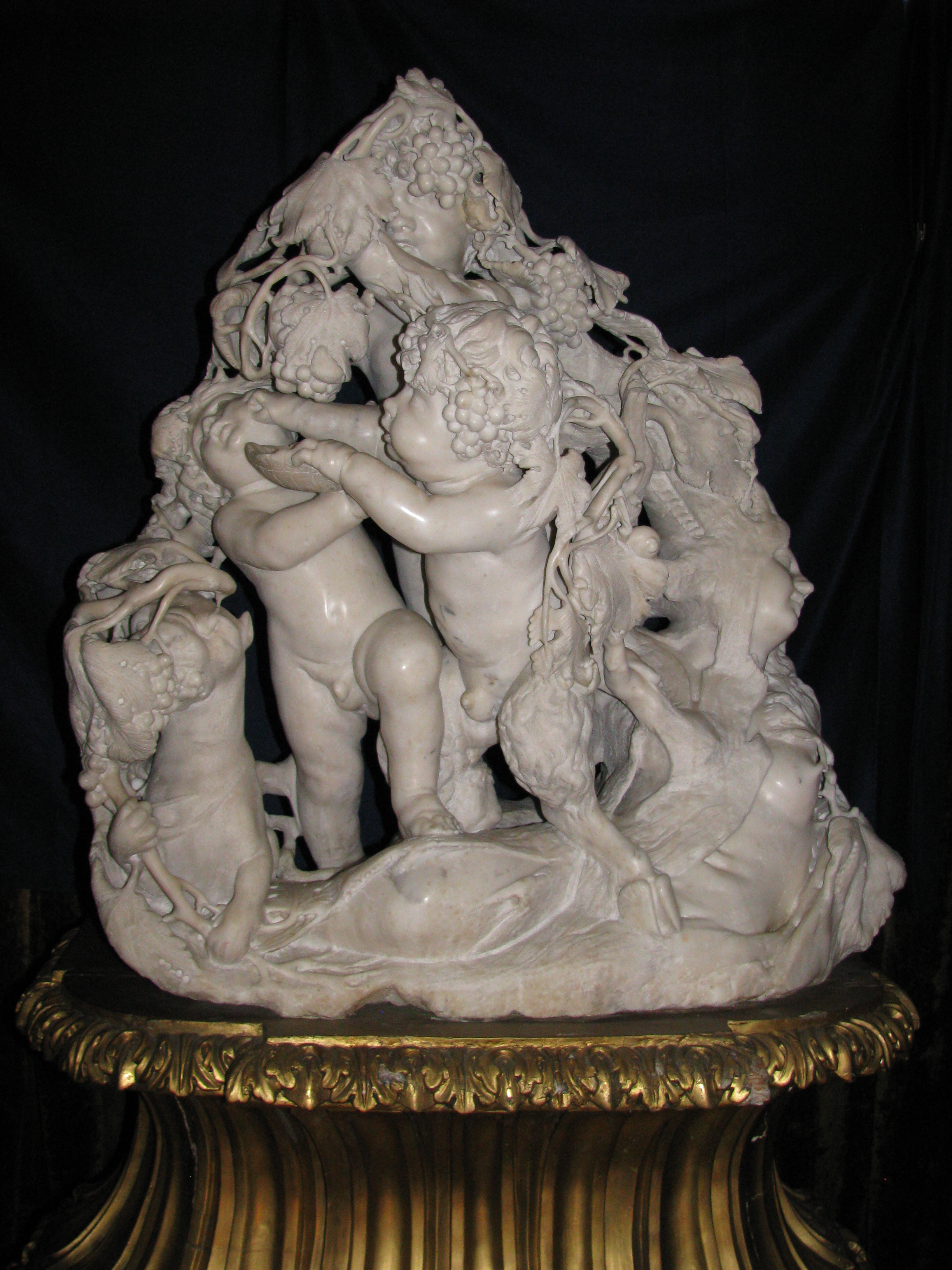 "Allegory on human life" by Francesco Grassia, marble, 1661. The Dooley Mansion - Maymont Foundation - Richmond, Virginia. "Allegoria della vita umana" di Francesco Grassia, marmo, 1661. The Dooley Mansion - Maymont Foundation - Richmond, Virginia.